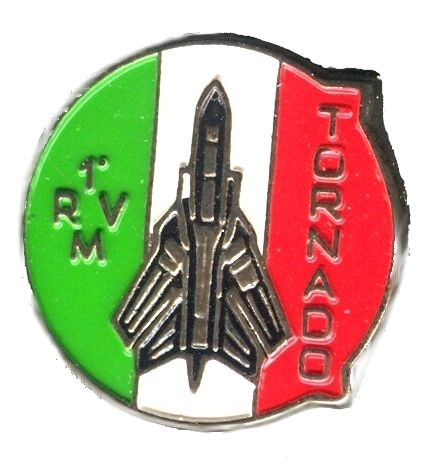 ensign of the 1º RMV of the Aeronautica Militare (Italian Air Force).